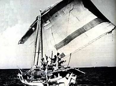 This image was borrowed from the following website: ( click on the "archival image" button to retrieve the image: )